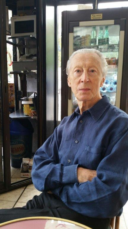 Murray Melvin sitting outside the Sarah Bernhardt Theatre, Paris. 2014